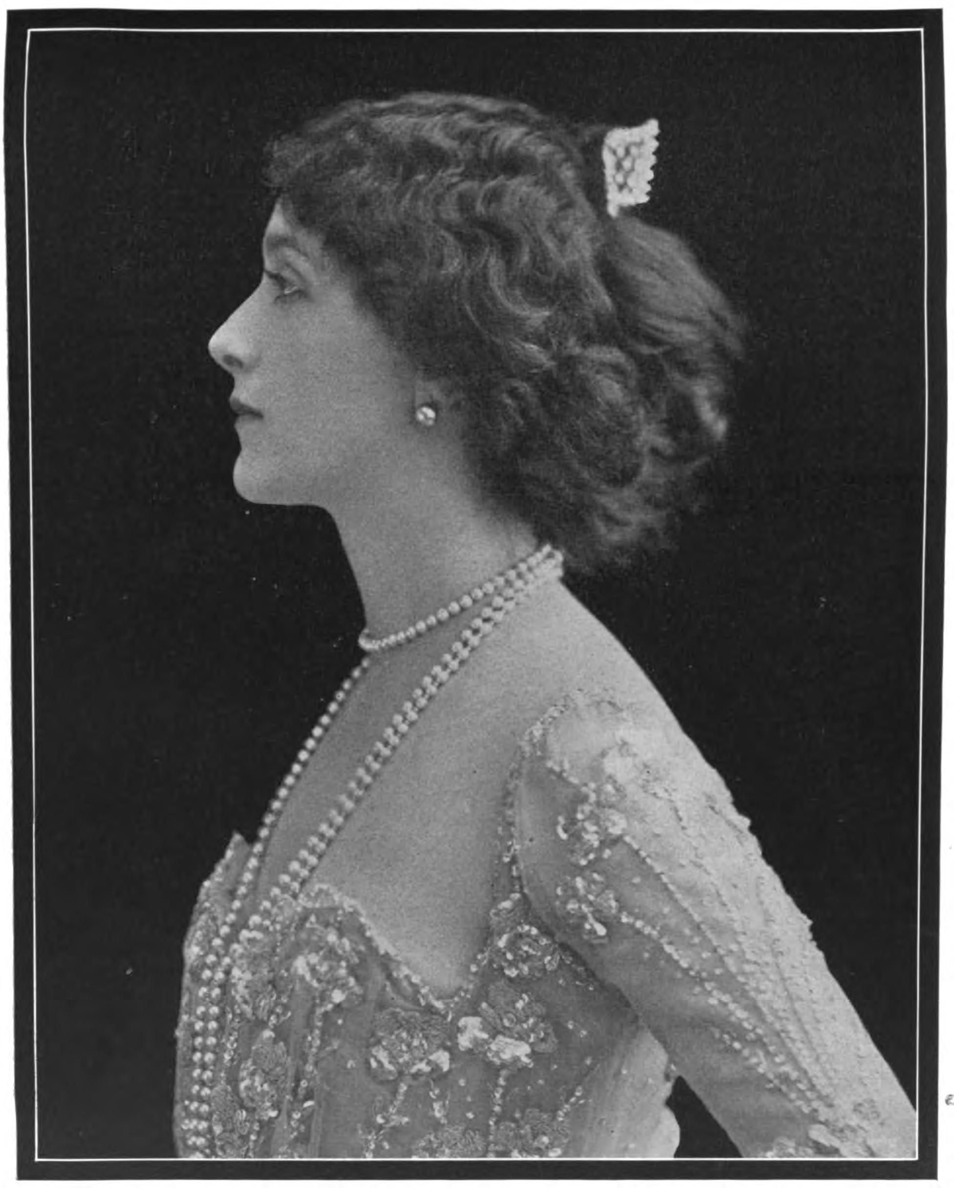 Lina Cavalieri (25 December 1874 — 7 February 1944) was an Italian operatic soprano and diseuse.